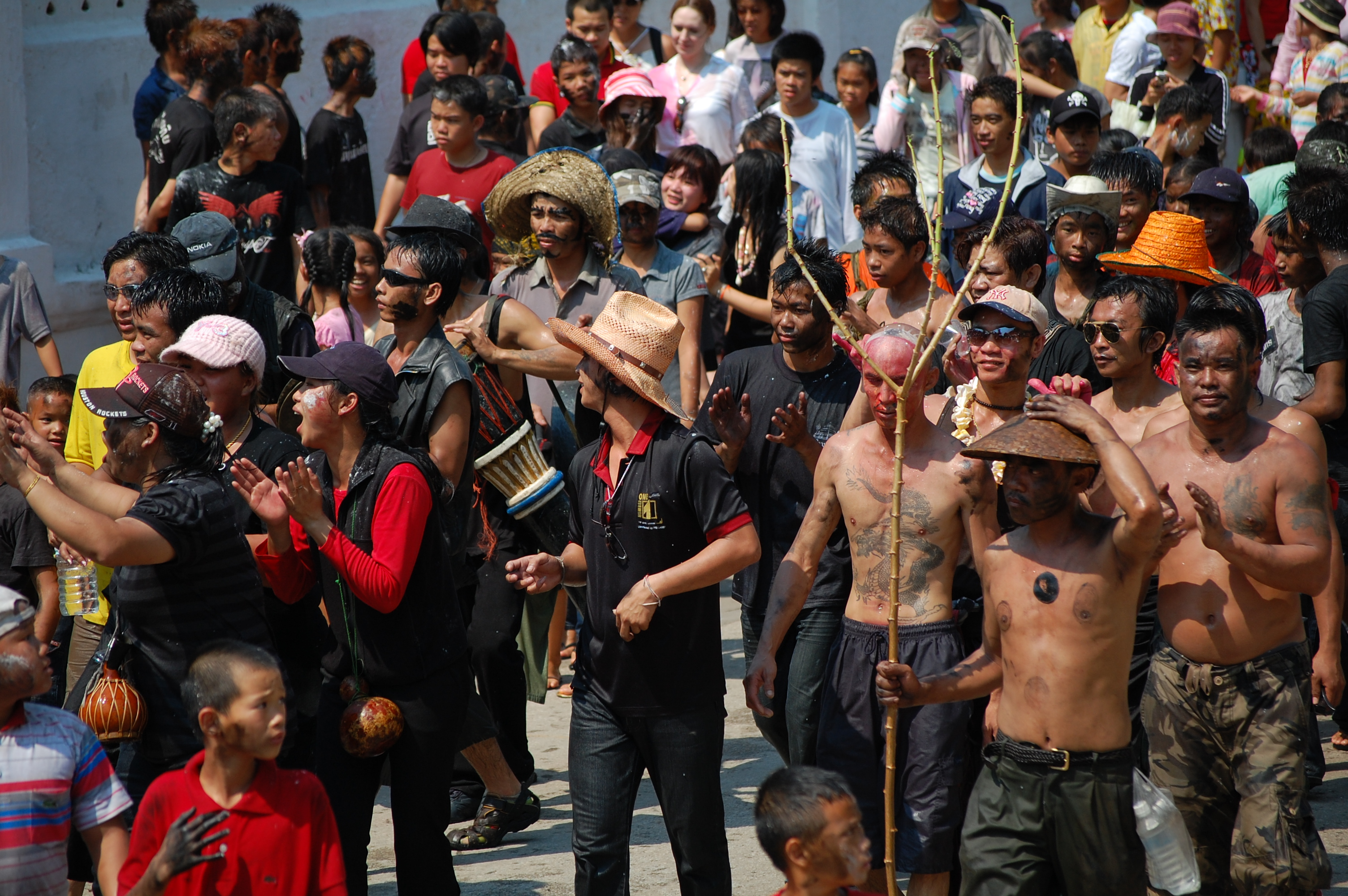 The last group of the parade looked really intense.